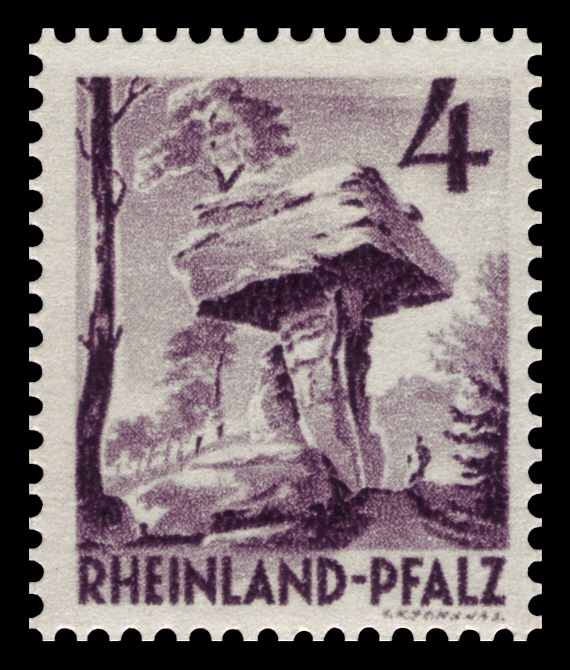 French occupied zone, Rhineland-Palatinate, persons and views of Rhineland-Palatinate (III) Ausgabepreis: 4 Pfennig First Day of Issue / Erstausgabetag: November 1948 Michel-Katalog-Nr: 33 (Französische Besetzungszone, Rheinland-Pfalz)